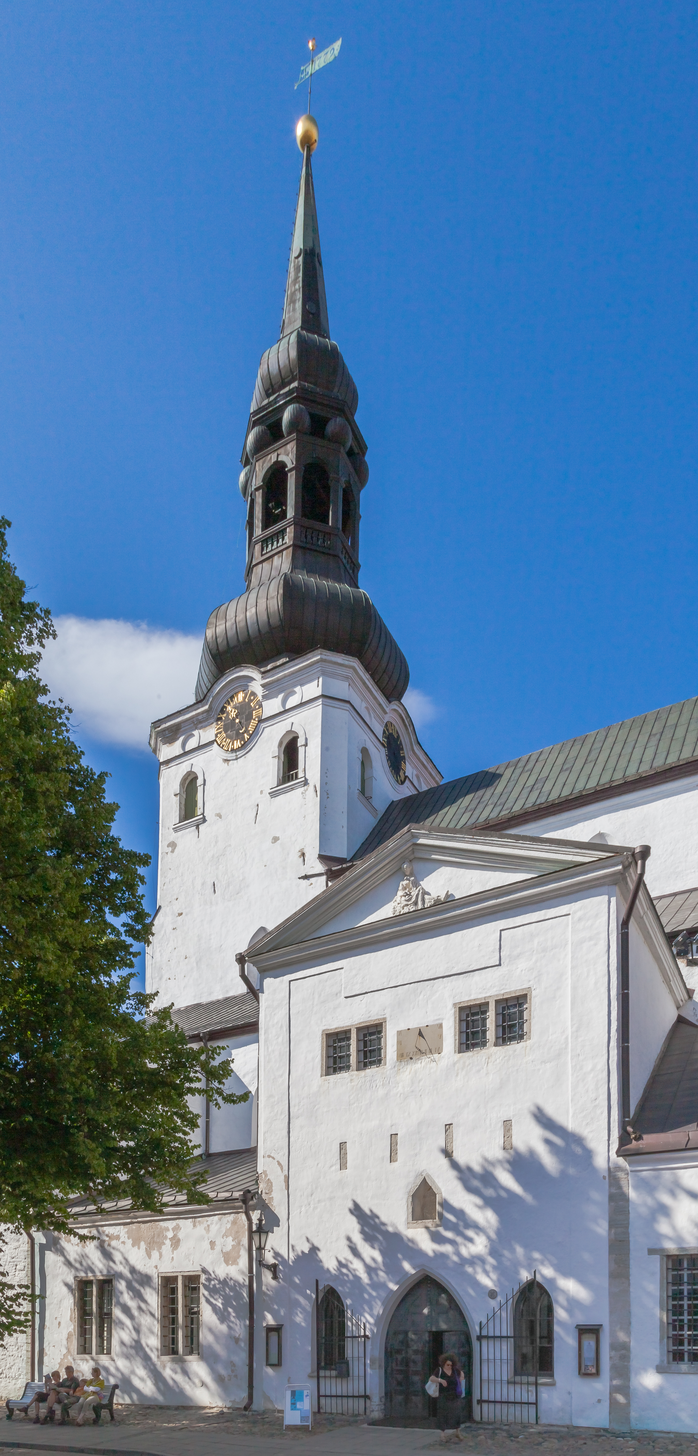 Cathedral of Saint Mary, Tallinn, Estonia